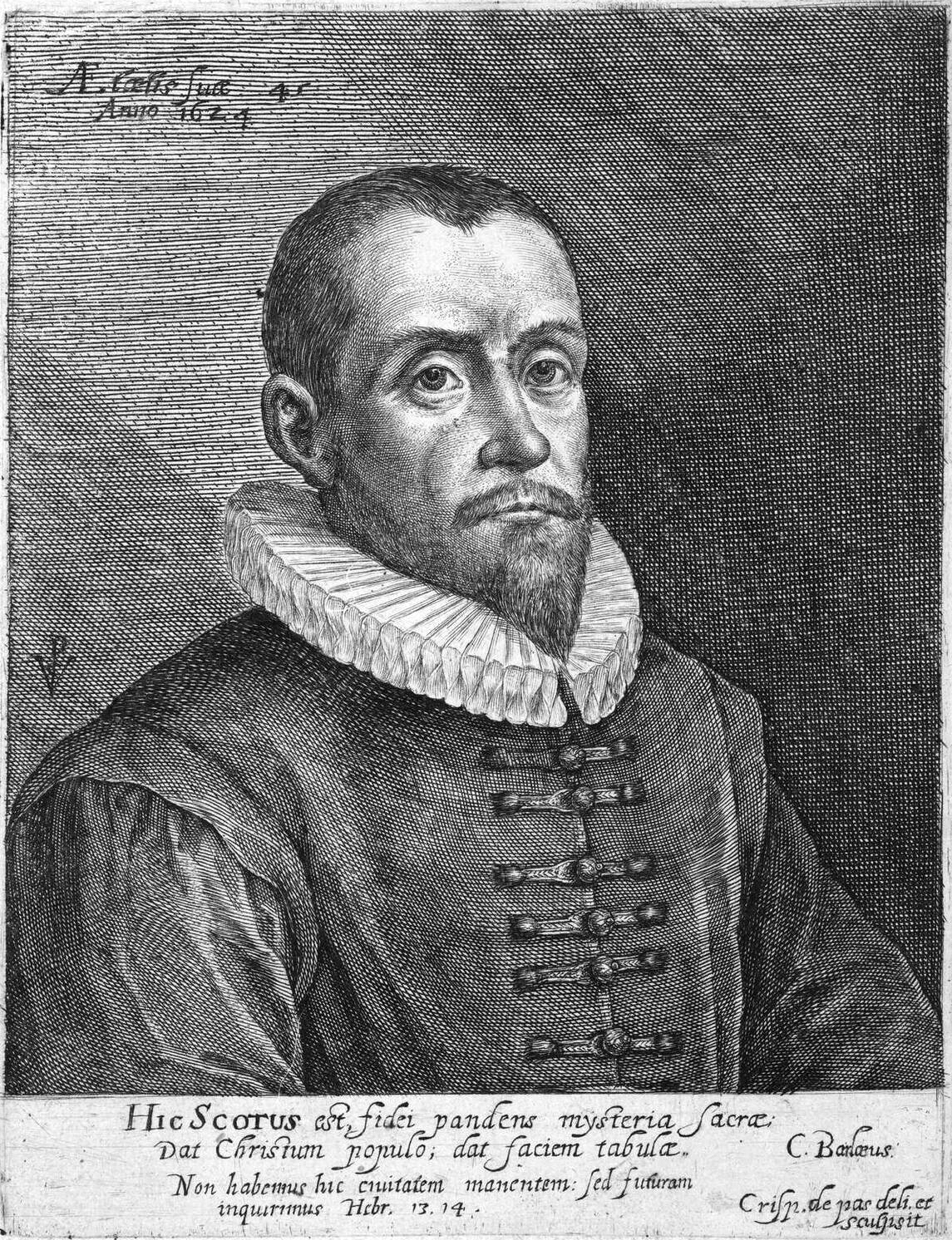 Thomas Scott engraving 14,8 x 12,9 cm 1624